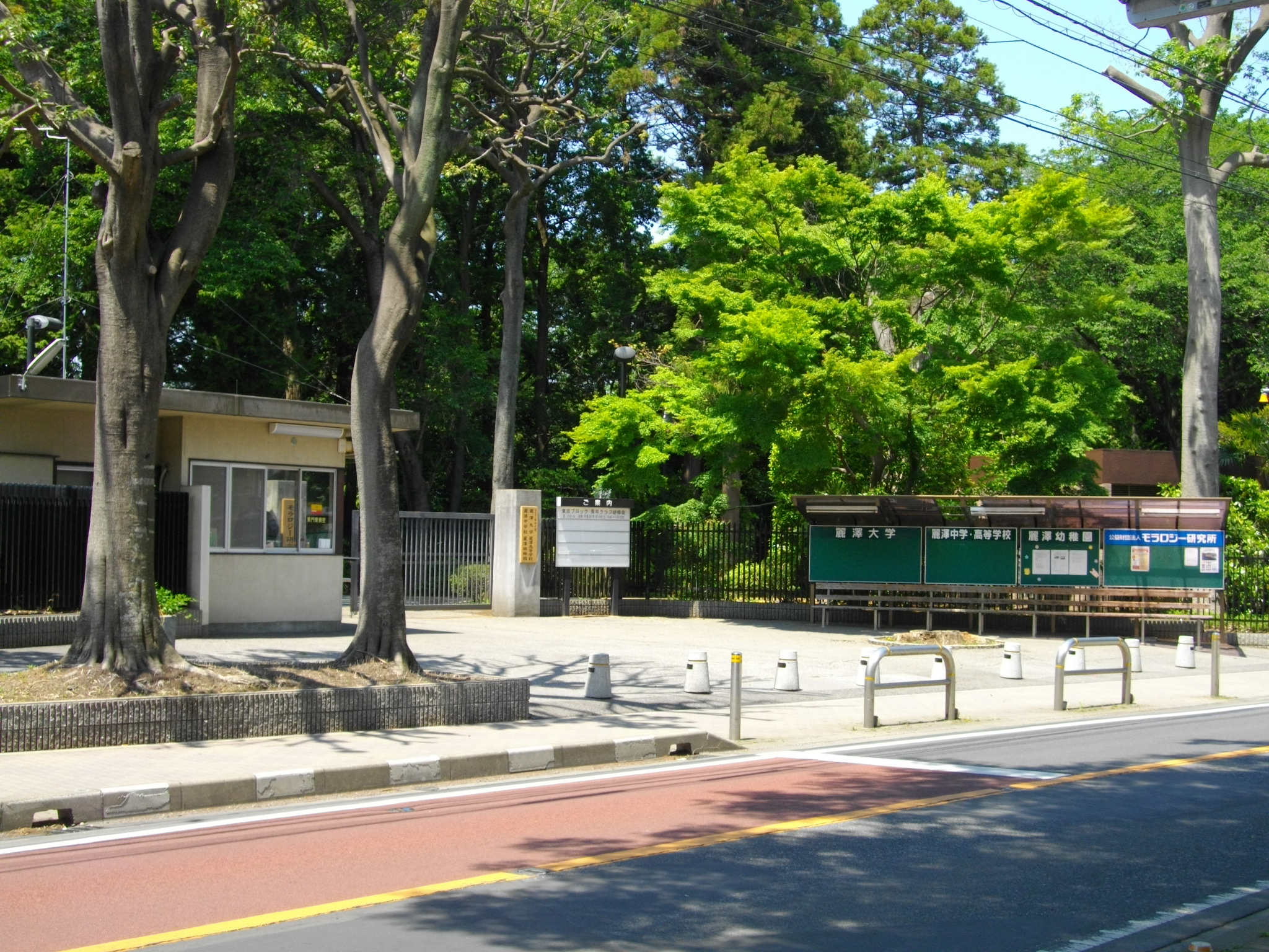 Hiroike Gakuen East Gate